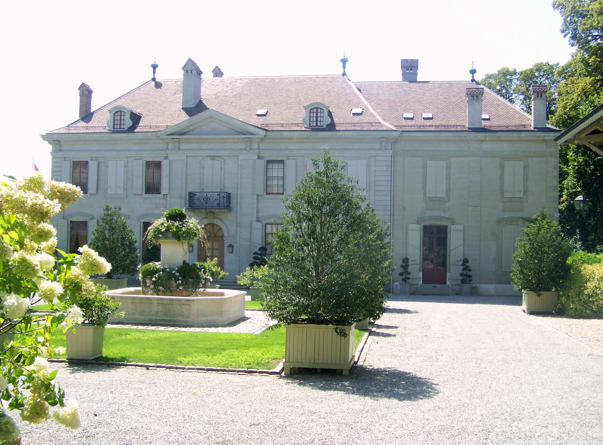 Domaine de Garengo in village of Céligny near Nyon in Switzerland.